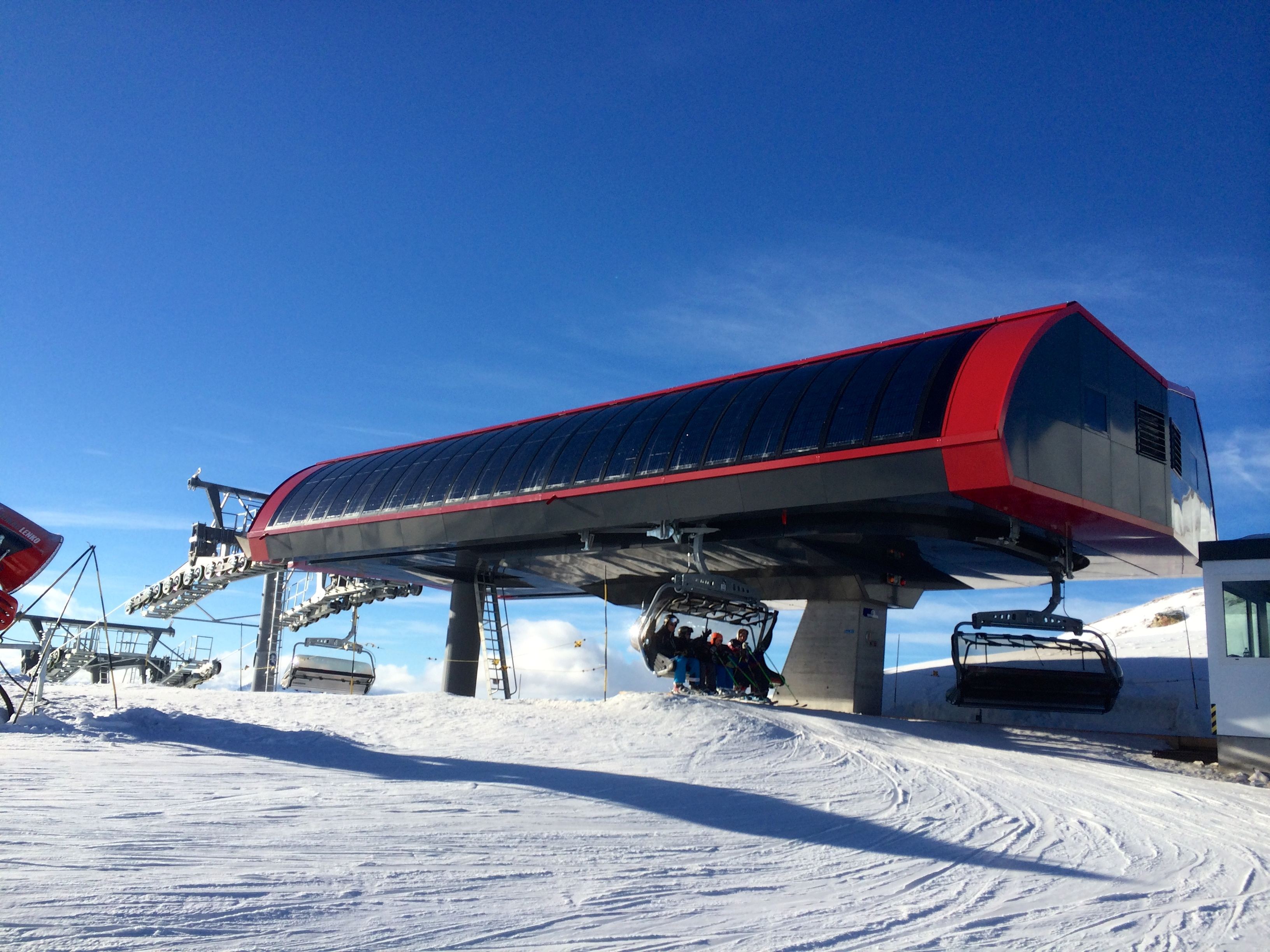 Top station of chairlift Urdenfürggli, ski resort Arosa Lenzerheide/Switzerland